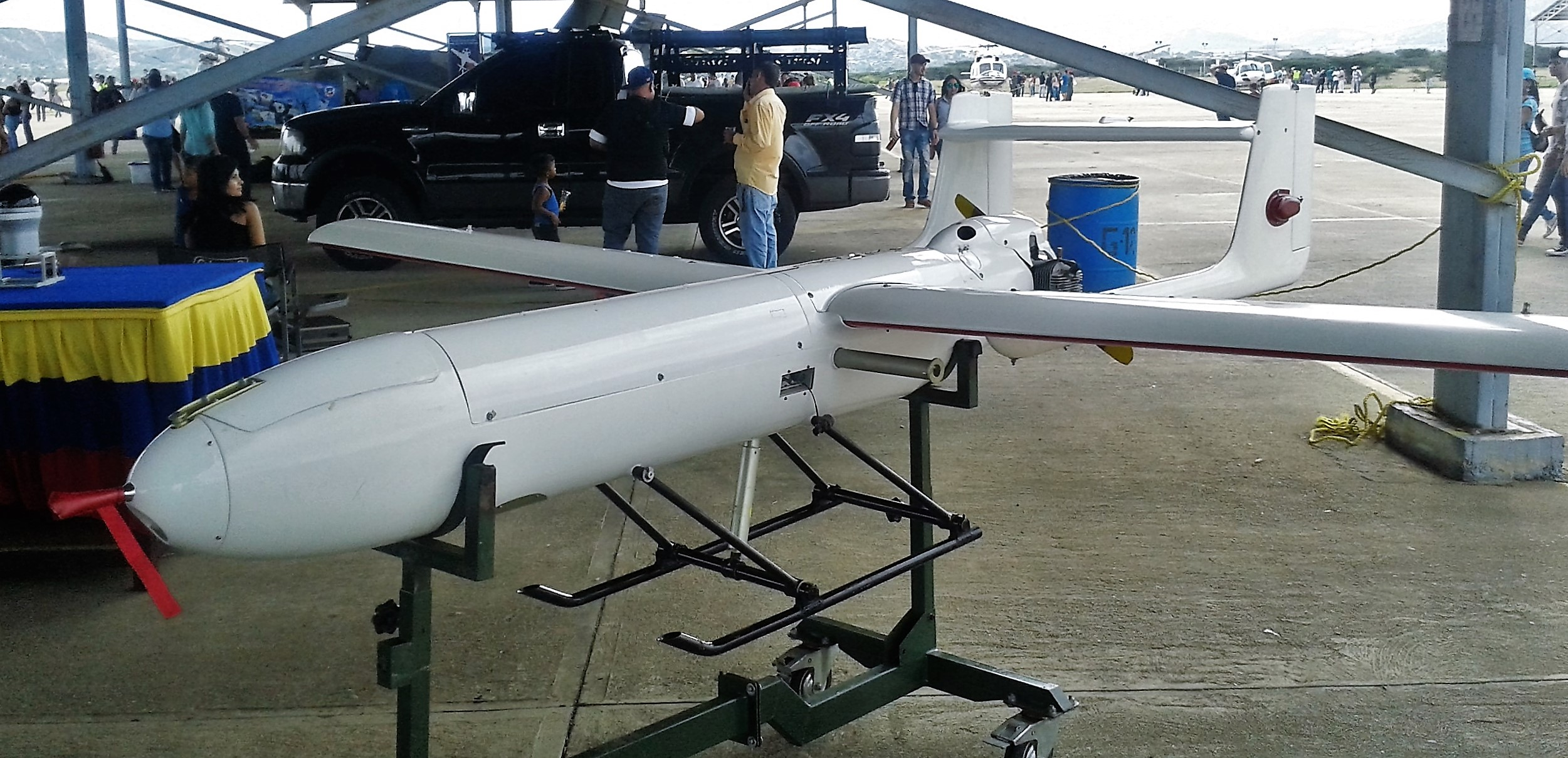 Venezuelan Arpía, a license-built copy of the Iranian Mohajer-2 drone, exhibited during the Balanda 2016 aeronautical fair